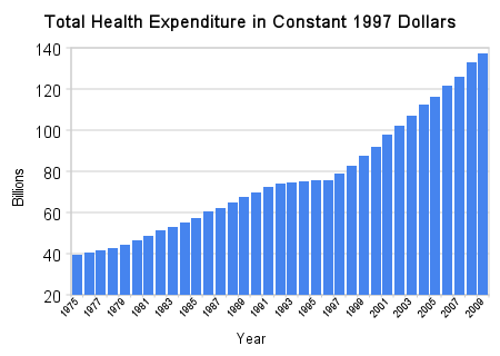 Total Health Expenditure in Constant 1997 Dollars (pdf). Canadian Institute for Health Information 119.